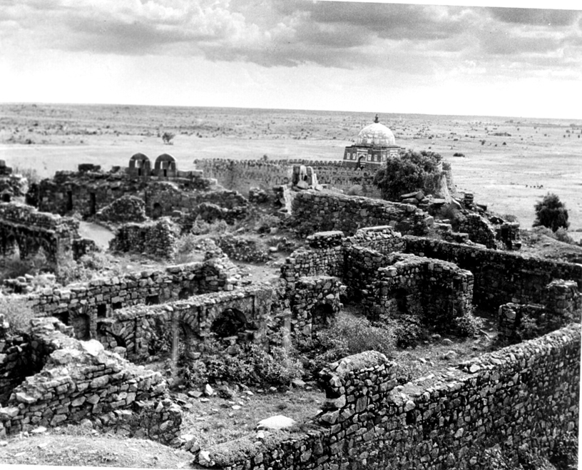 DPD/Aug.49, A04aGhiyas-ud-din Tughlak who founded the tughlak dynasty in 1321 built the city of Tughlakabad in the stony hills near Delhi. Photo shows the ruins of Tughlakabad with Ghiyas-ud-din’s tomb in the background. The tomb is of red stone with a white marble dome. Photo Number:-10786